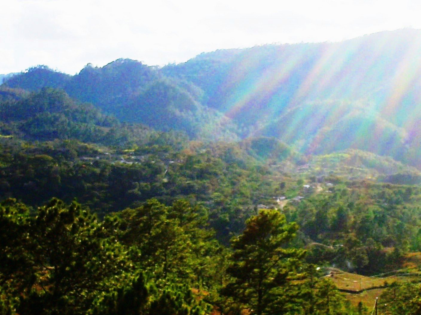 San Sebastian, municipality in the Honduran department of Lempira.